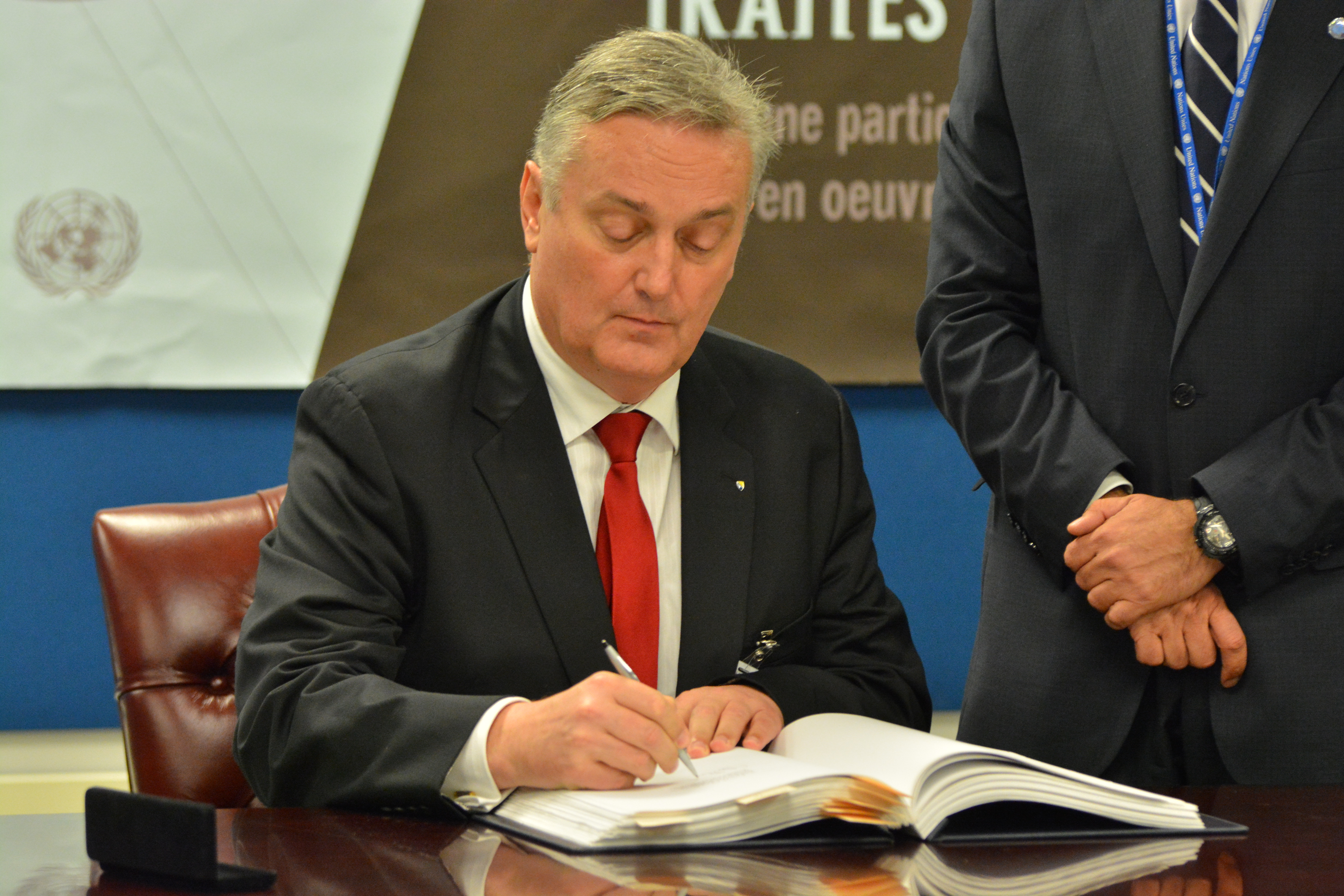 Minister of Foreign Affairs and Deputy Chairman of the Council of Ministers of Bosnia and Herzegovina, Zlatko Lagumdzija